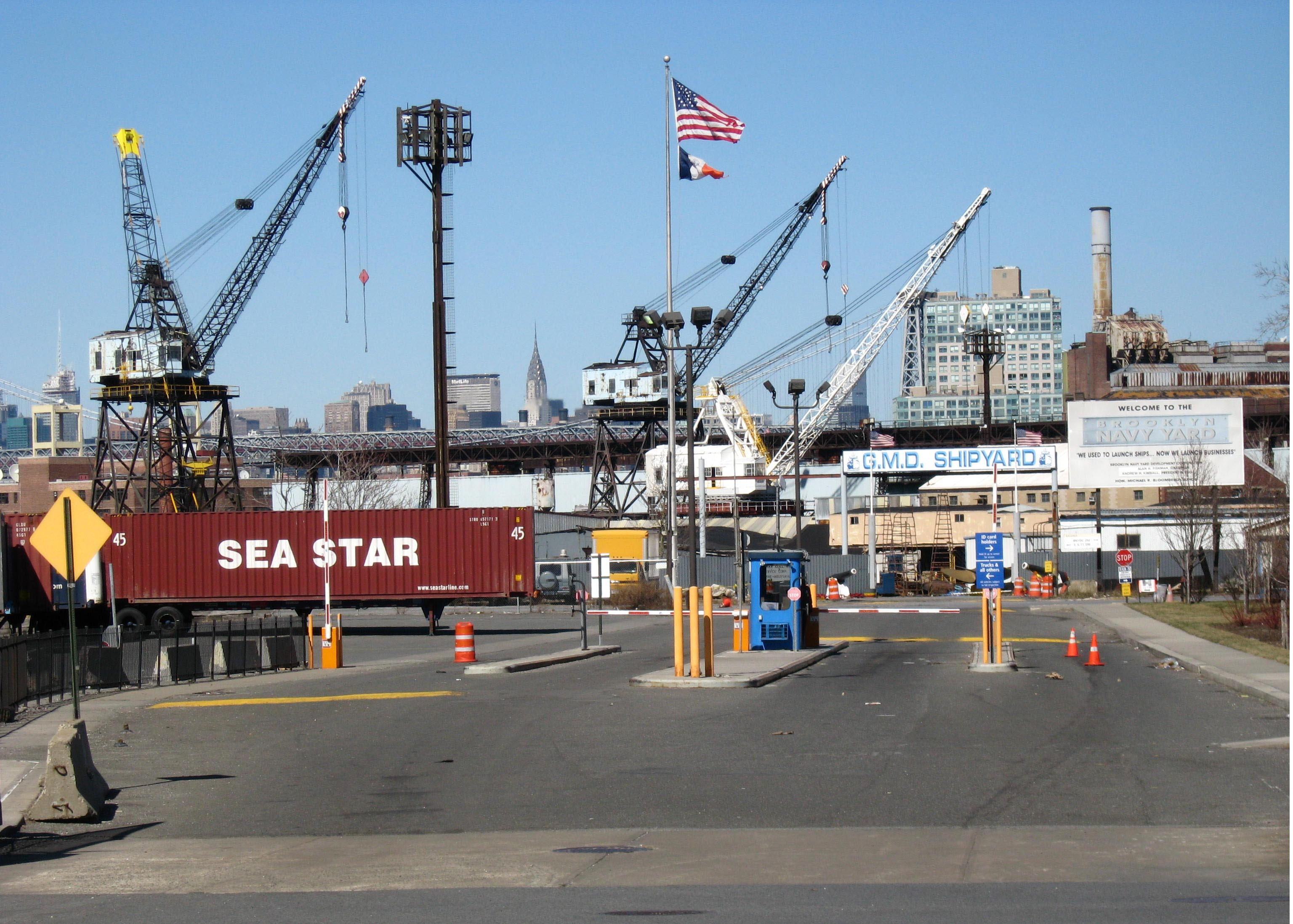 Looking north from Clinton Avenue through the main gate of Brooklyn Navy Yard on an early springtime afternoon